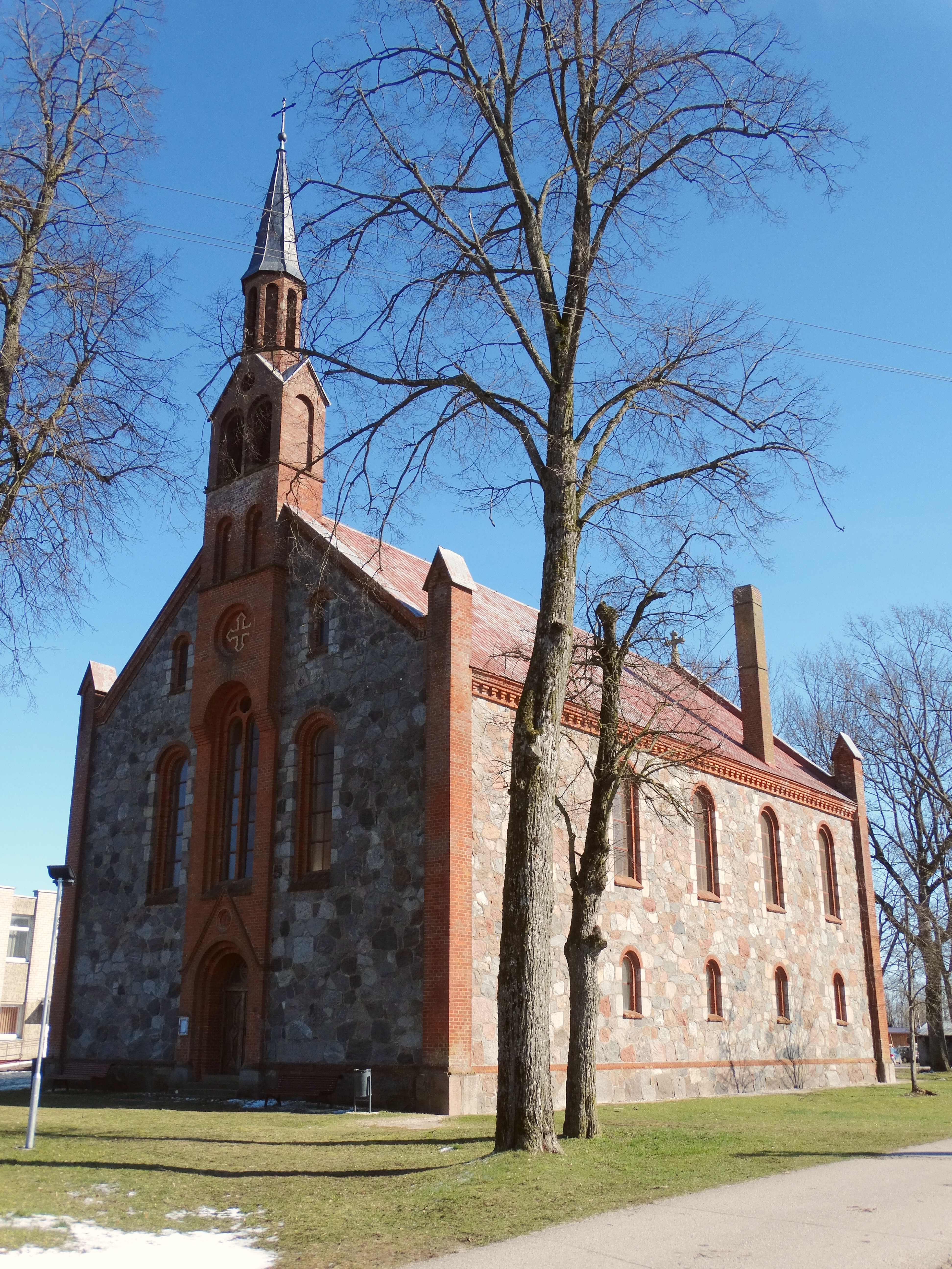 Lutheran Church, Dovilai, Klaipėda district, Lithuania